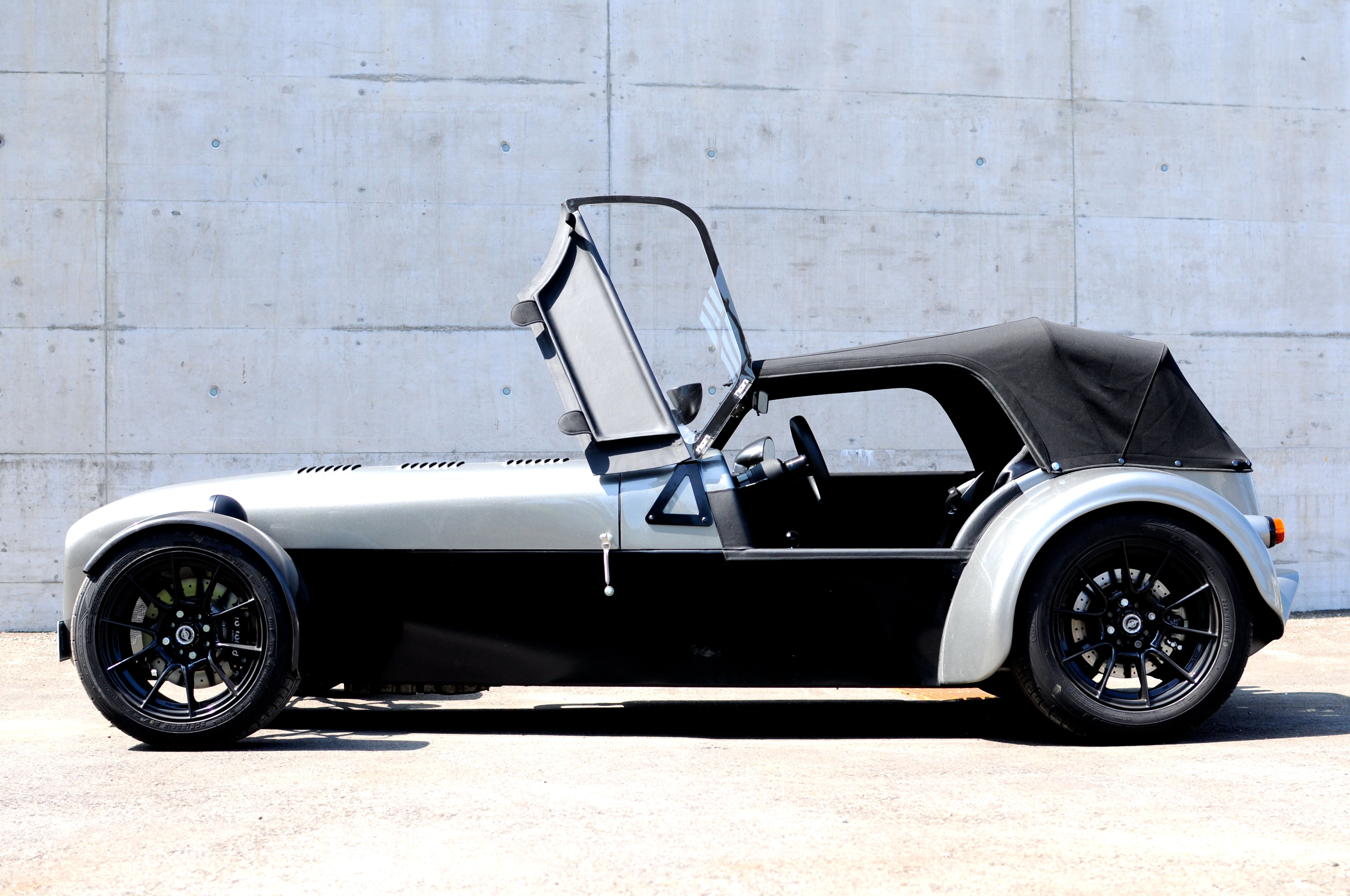 Super Seven of HKT GTS